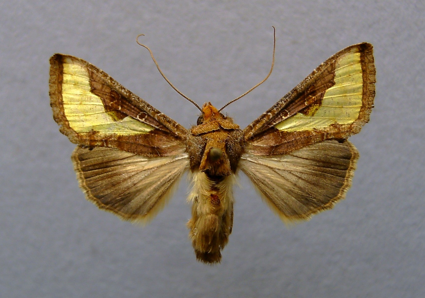 Thysanoplusia orichalcea, São Miguel Island Portugal